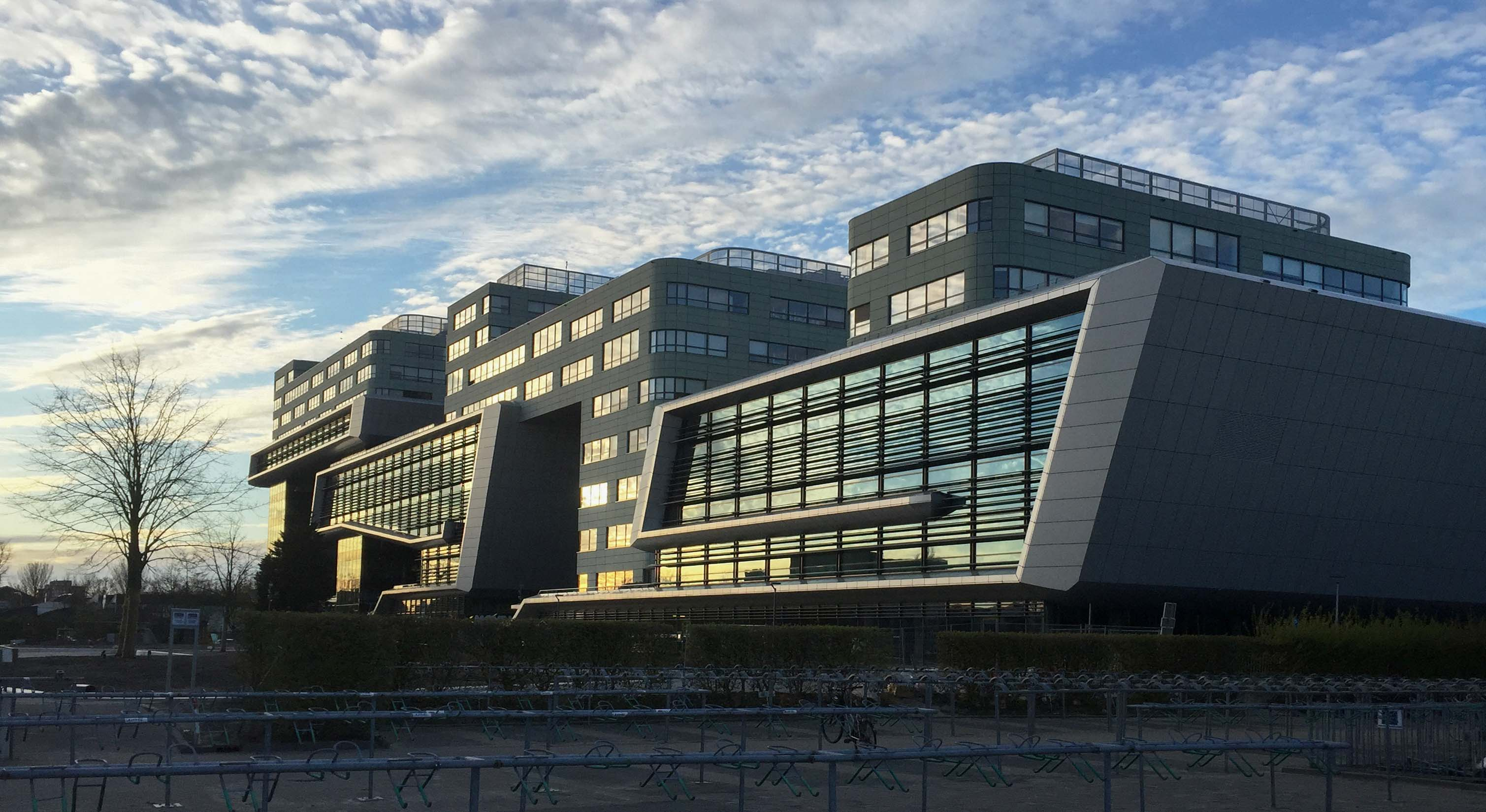 Regional Community College (ROC) near Lammenschans in Leiden